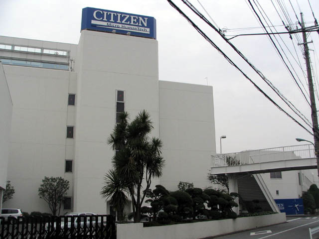 Head office of the the Citizen Watch holding company in Tanashi, Tokyo.